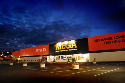 Mitre 10 MEGA store in Glenfield, Auckland, New Zealand at dusk.